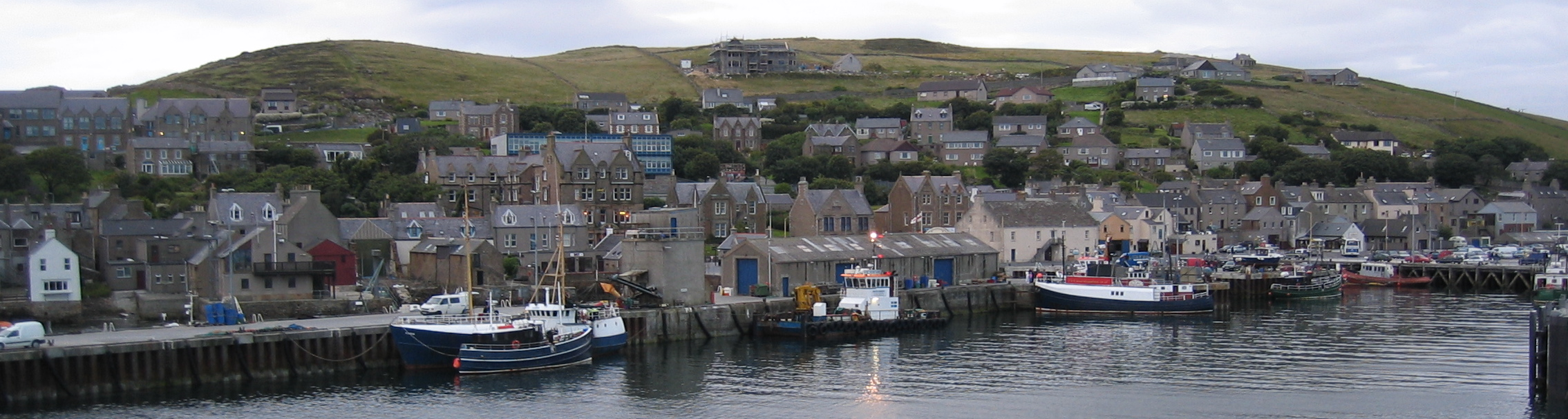 Taken by myself from the deck of the Hamnavoe on entering Stromness Harbour 17th August 2004